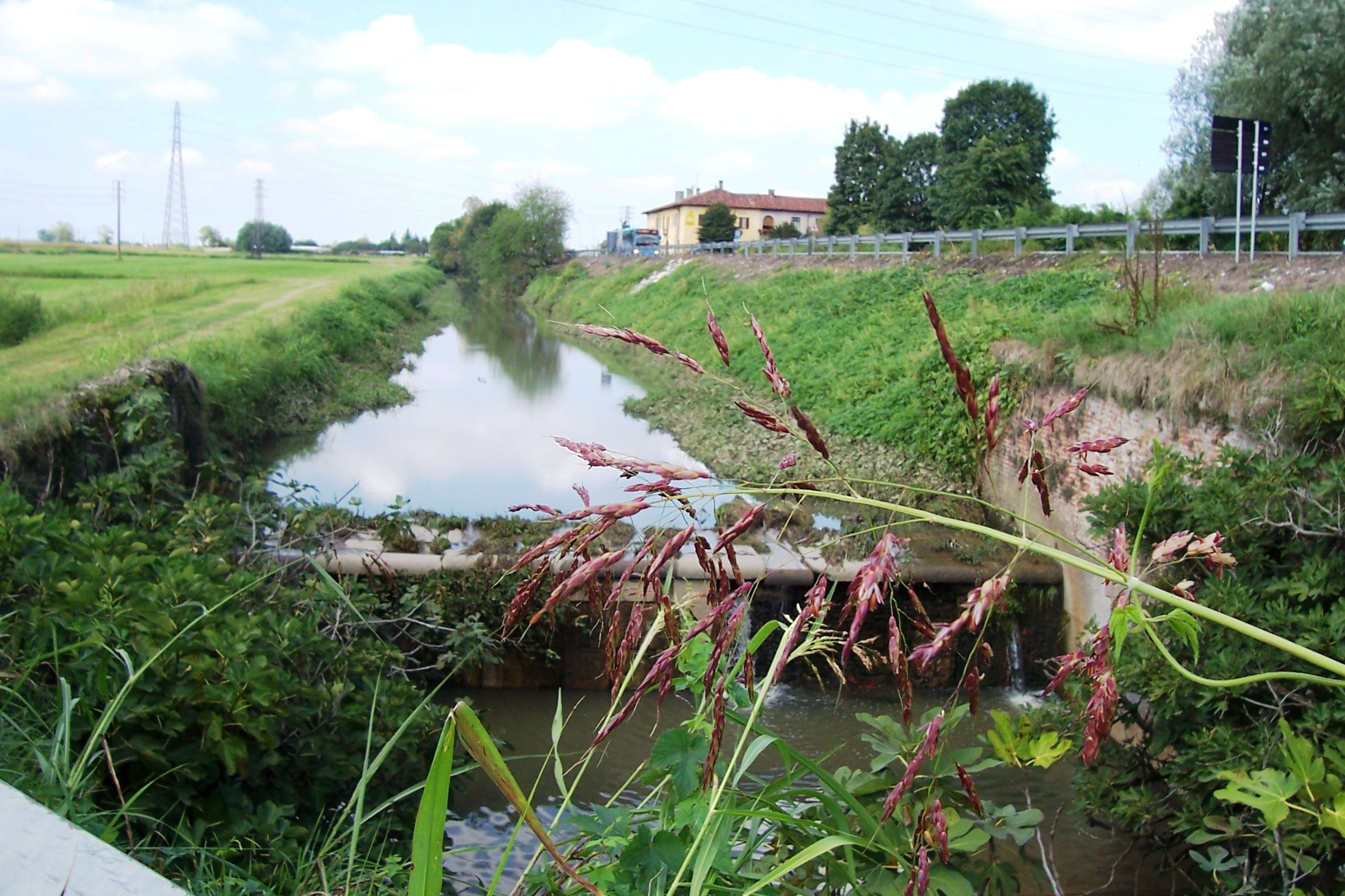 The Redefossi Canal at La Rampina, in San Giuliano Milanese